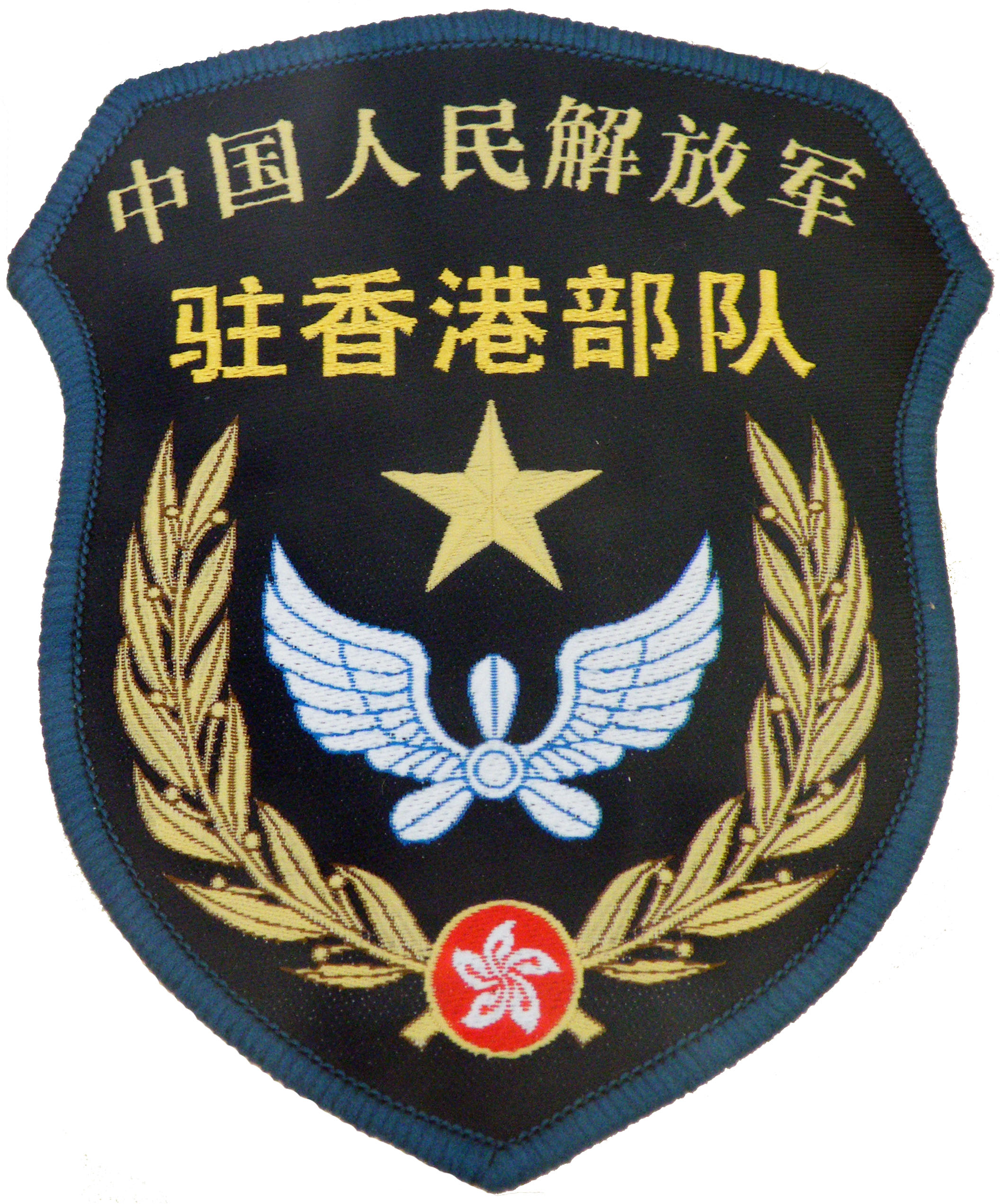 Arm Badge used from 2007, Air-force, People's Liberation Army Hong Kong Garrison